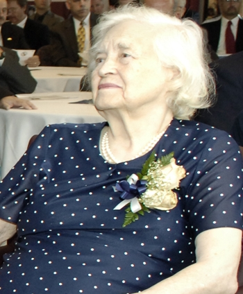 WASHINGTON (July 21, 2009) Dr. Isabella Karle during her retirement from the Naval Research Laboratory after a combined 127 years (with Jerome Karle) of government service. The Distinguished Civilian Service Award is the highest Navy award that the SECNAV can confer on a civilian employee. The Karles both worked on the Manhattan Project that developed the first atomic weapon and Jerome Karle was a co-recipient of the 1985 Nobel Prize in Chemistry. (U.S. Navy photo by John F. Williams/Released)